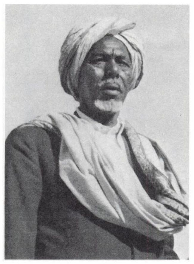 Portrait of Sultan Abdillahi Sultan Deria, Grand Sultan of Isaaq clans. [1]